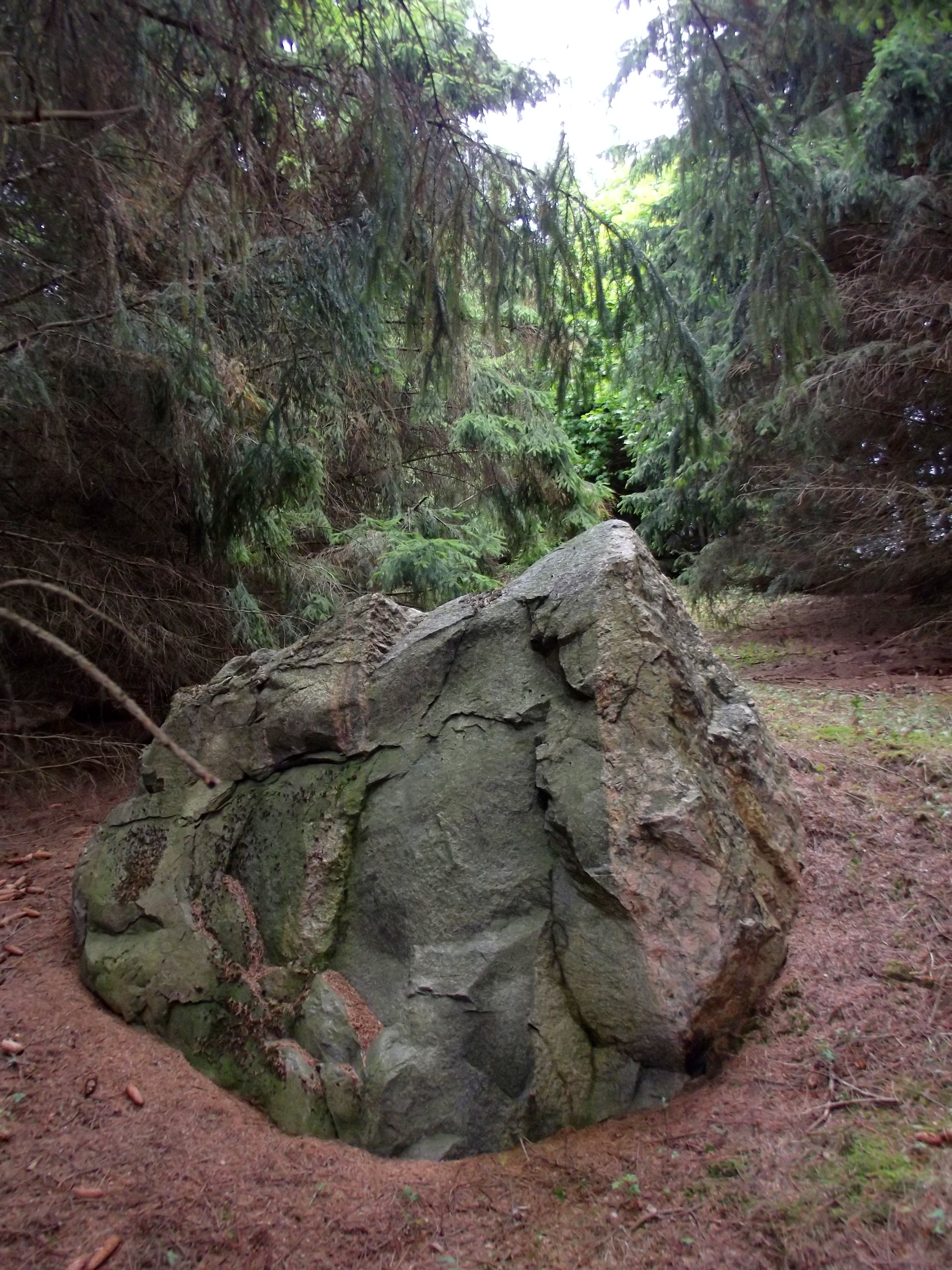 Stone II in Ringailiai, Kaišiadorys District, Lithuania